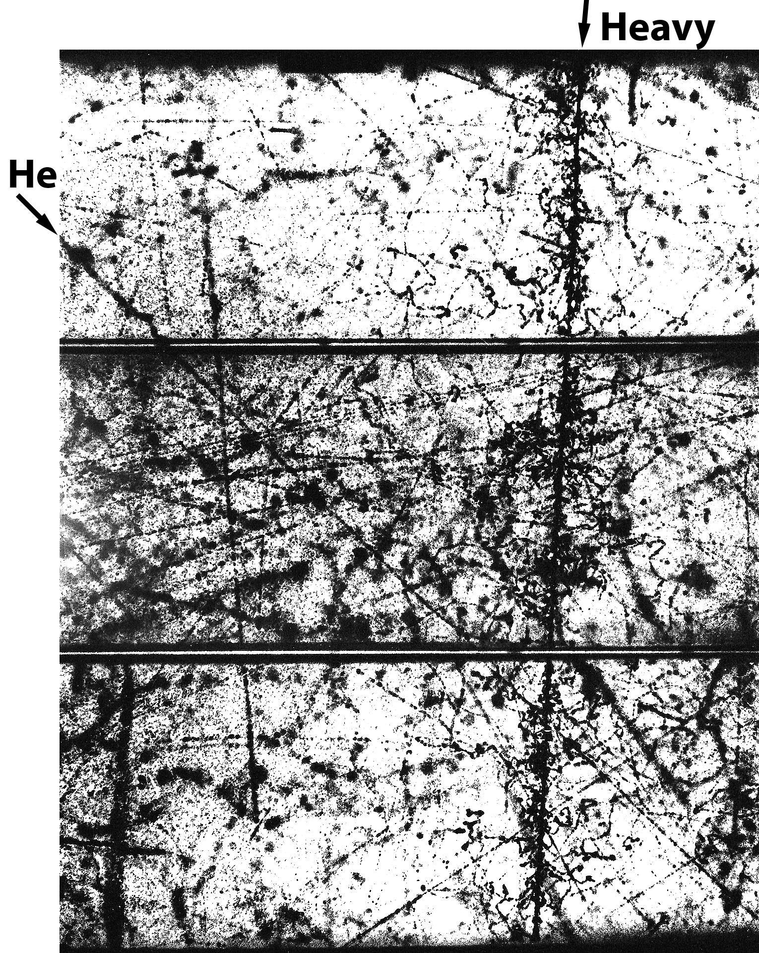 Cloud chamber photograph of a Cosmic Ray Heavy Nucleus, taken during a balloon flight on July 1, 1960